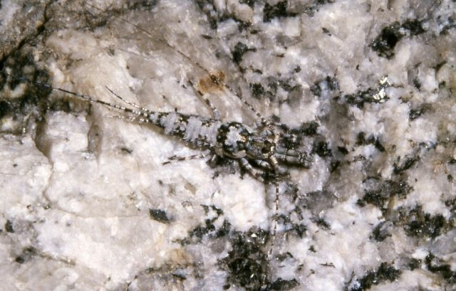 Jumping bristletail; At 2250 m asl; June 2003 near Albigna dam, Val Bregaglia, Switzerland.